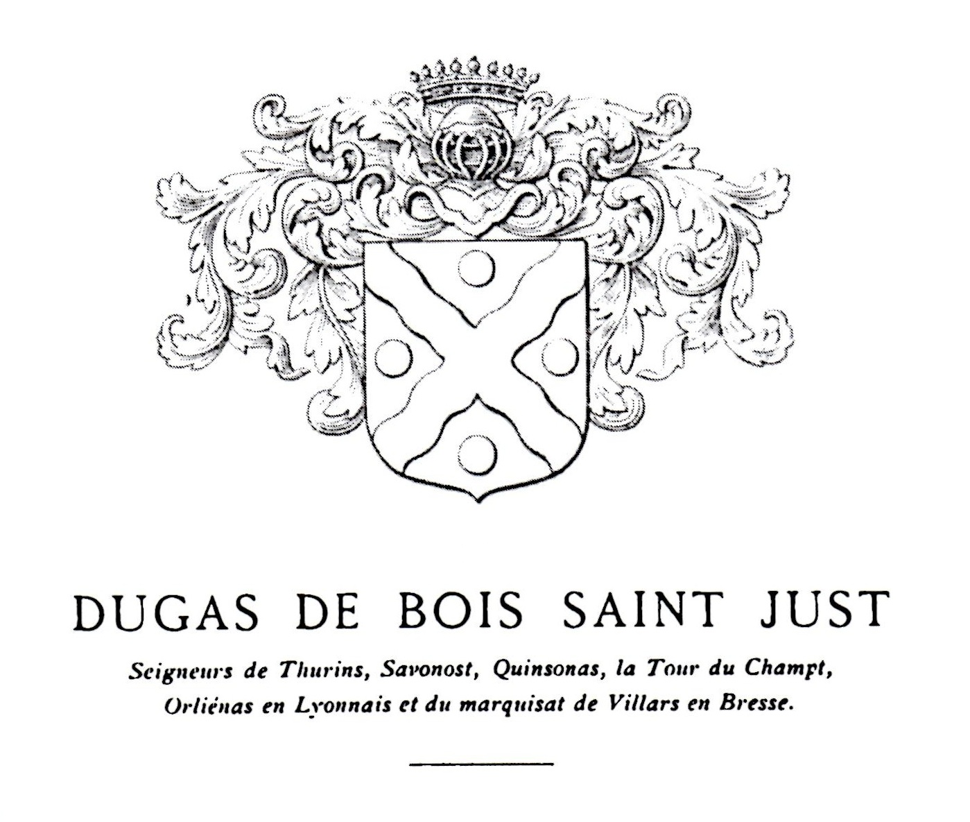 Coat of arms of the Dugas de Bois Saint-Just's family (Lyon, France)